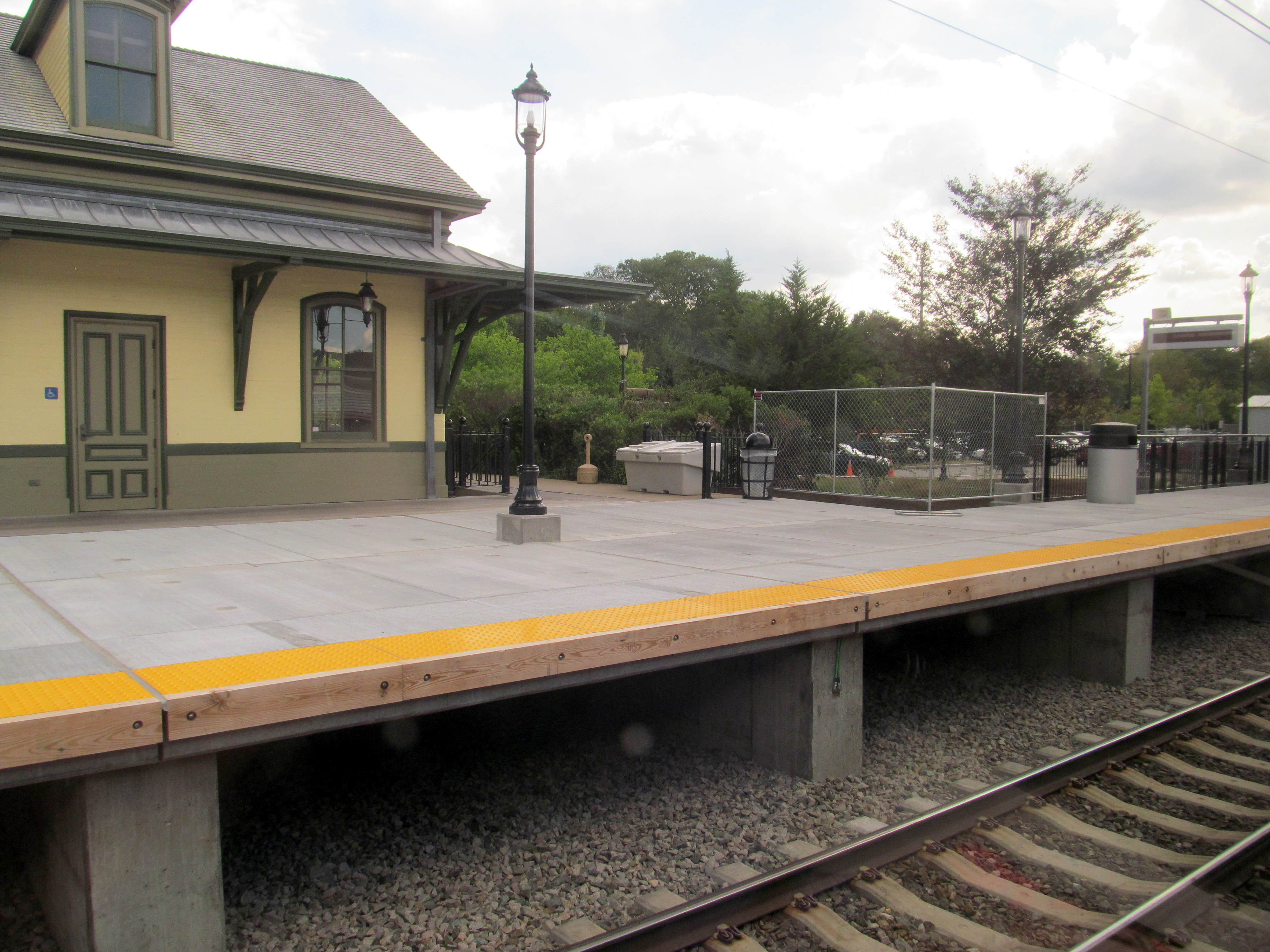 Northbound high-level platform in place at Kingston station in September 2016. At this point, the high-level platforms were nearly complete, but the third track was not yet installed.